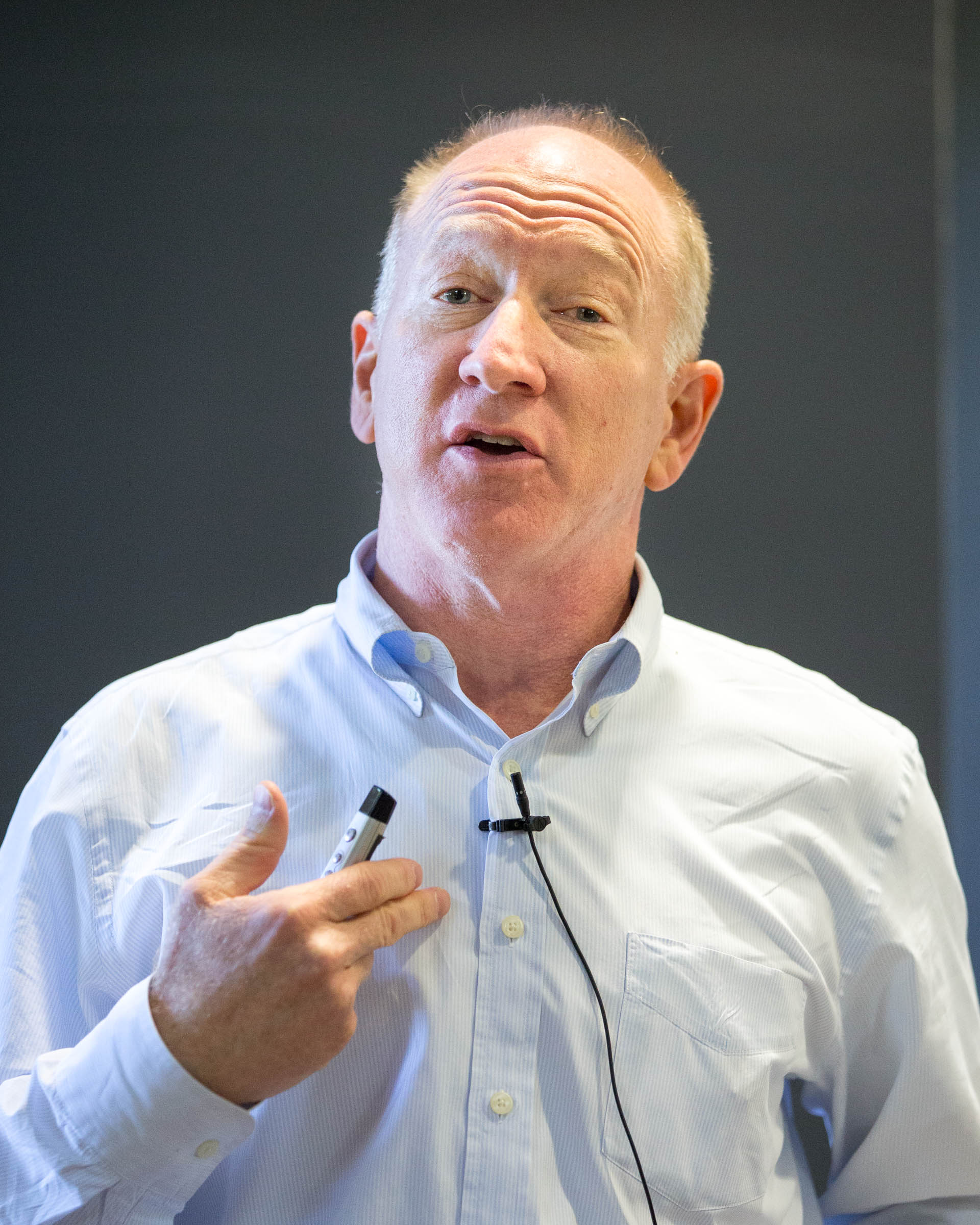 Scott Haltzman, associate clinical professor, medicine, Florida State University in 2015